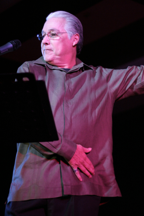 Luis Enrique Mejía Godoy. Image modified form its original version.